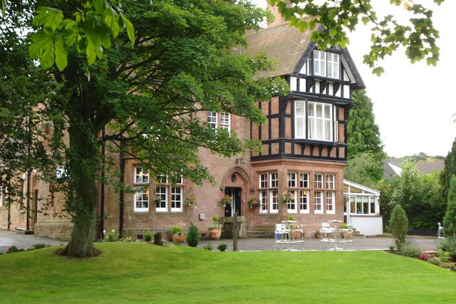 Craigiebield House Hotel Craigiebield House was built as a private dwelling in 1885 for Professor James Cossar Ewart. For some years in the middle of the twentieth century it was used as the offices of Penicuik Burgh Council. Since then it has been an hotel and has been considerably extended, with a restaurant in the conservatory seen on the right and a function room and further bedrooms to the rear.